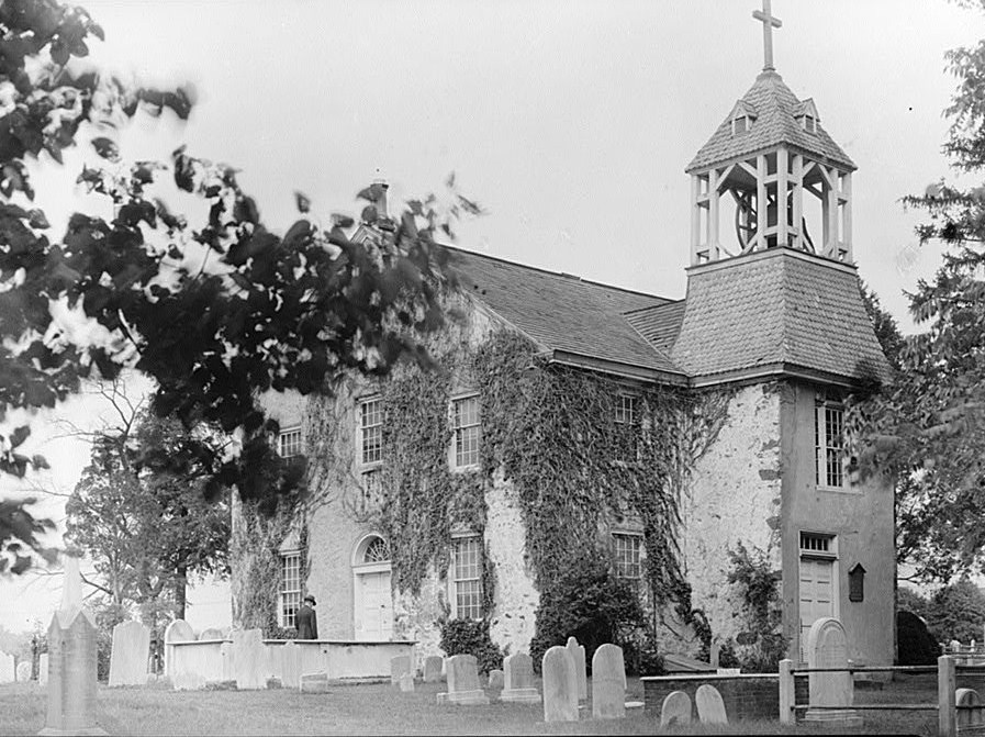 St. James Protestant Episcopal Church — Saint James Church Road & Old Capital Trail, Stanton (New Castle County, Delaware) Photo from the Historic American Buildings Survey of Delaware (cropped). Object location39° 43′ 08″ N, 75° 39′ 43″ W